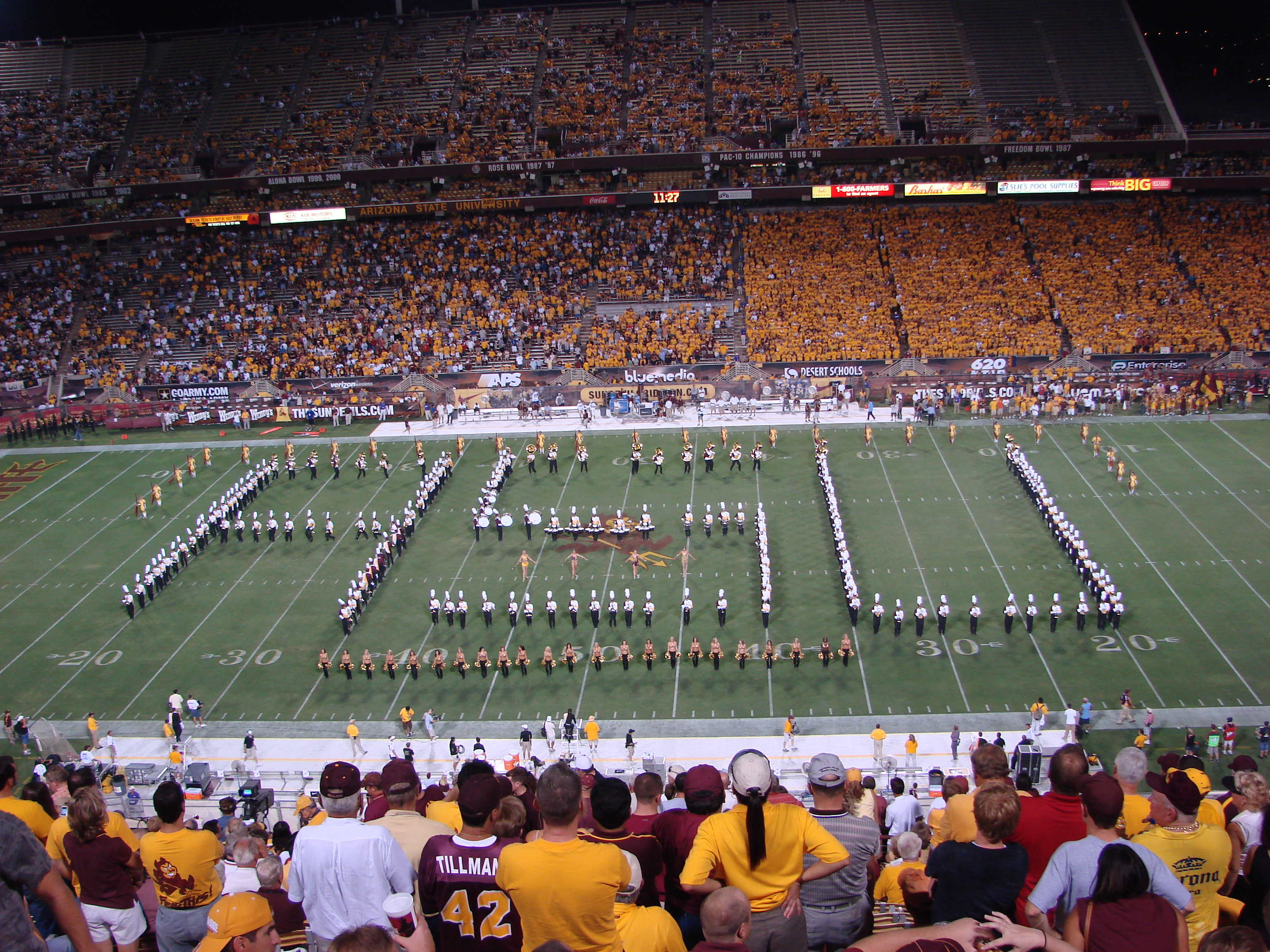 SDMB spelling out ASU in Pregame Formation.